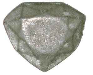 The lead cast of the "French Blue" recently rediscovered at the Muséum national d'Histoire naturelle in Paris by the end of 2007